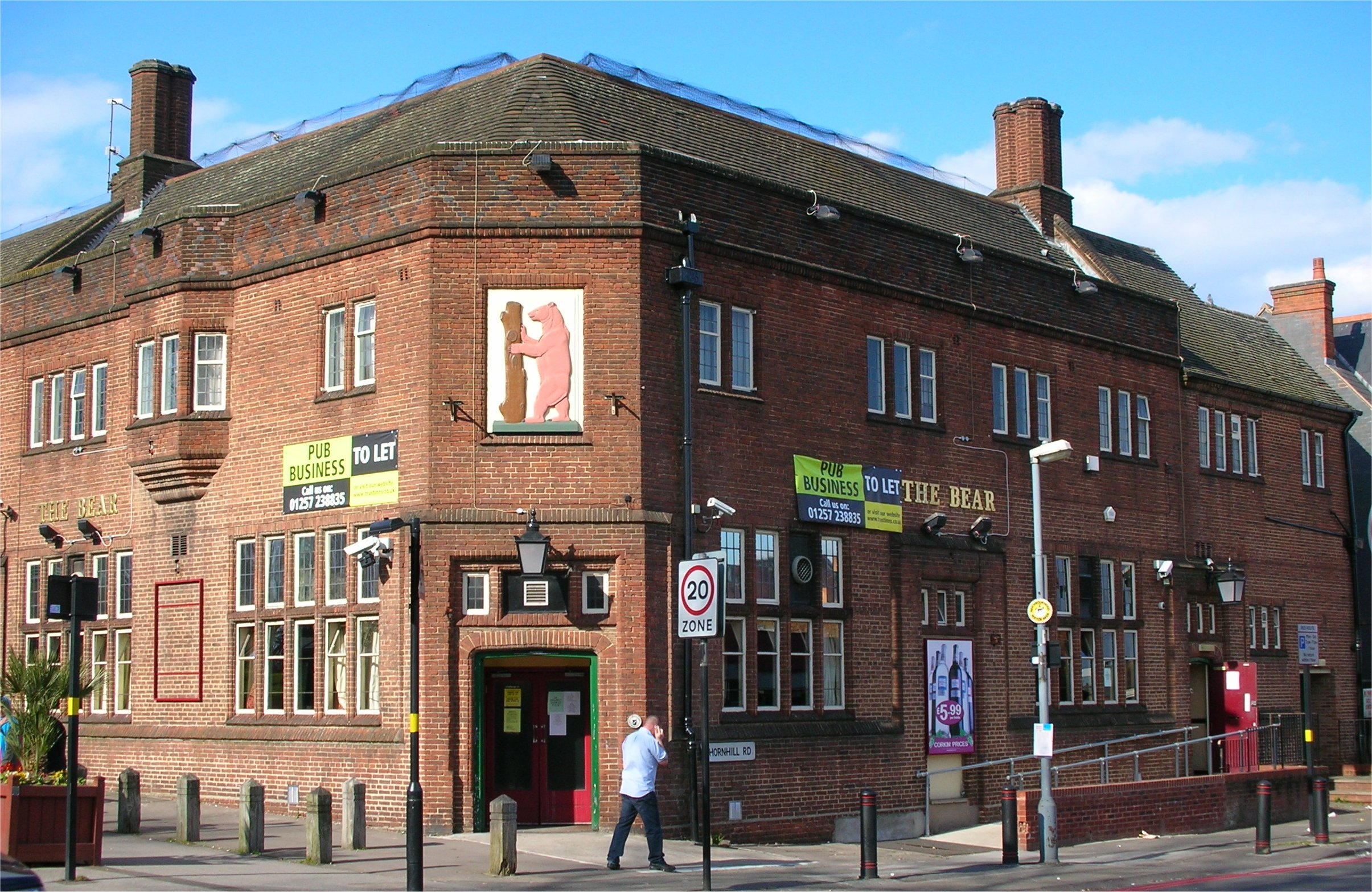 The Bear, Stratford Road, Sparkhill, Birmingham, England. A public house designed by Holland W. Hobbiss with pub sign sculpted by William Bloye. Photographed by me 8 April 2007. Oosoom